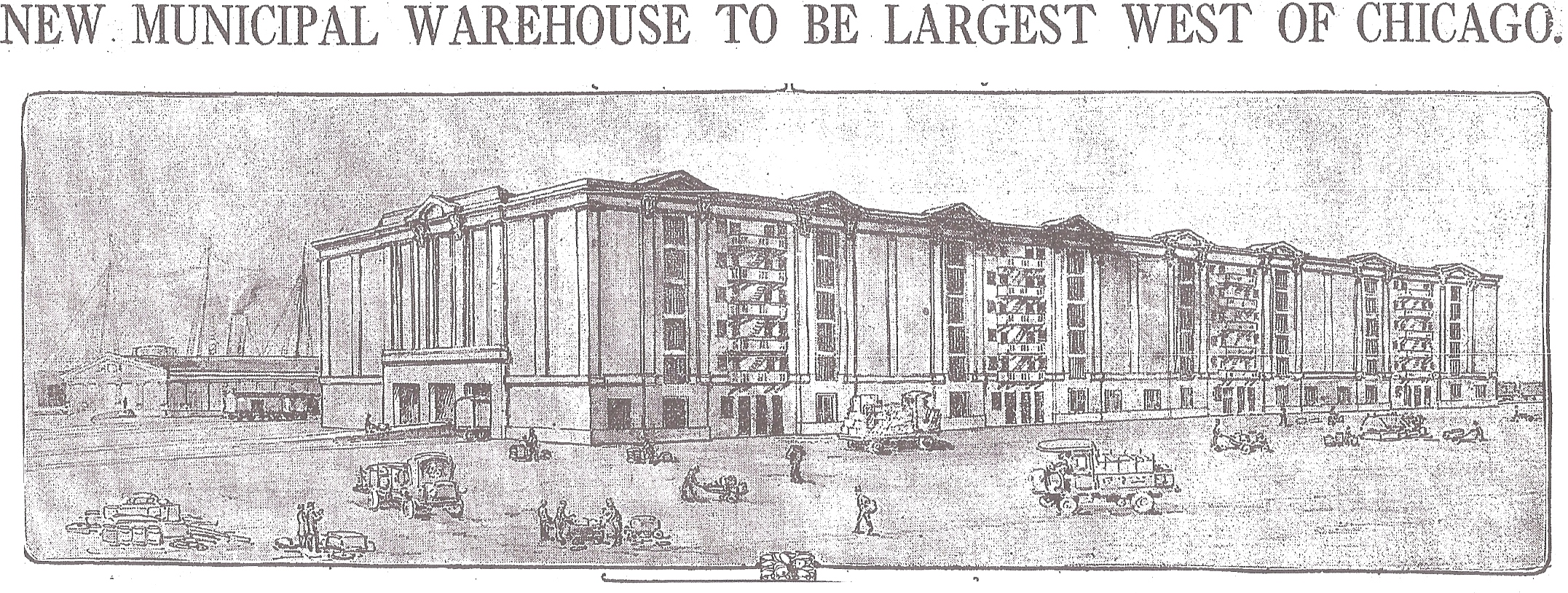 Drawing for Muncipal Warehouse No. 1, Port of Los Angeles, San Pedro, California